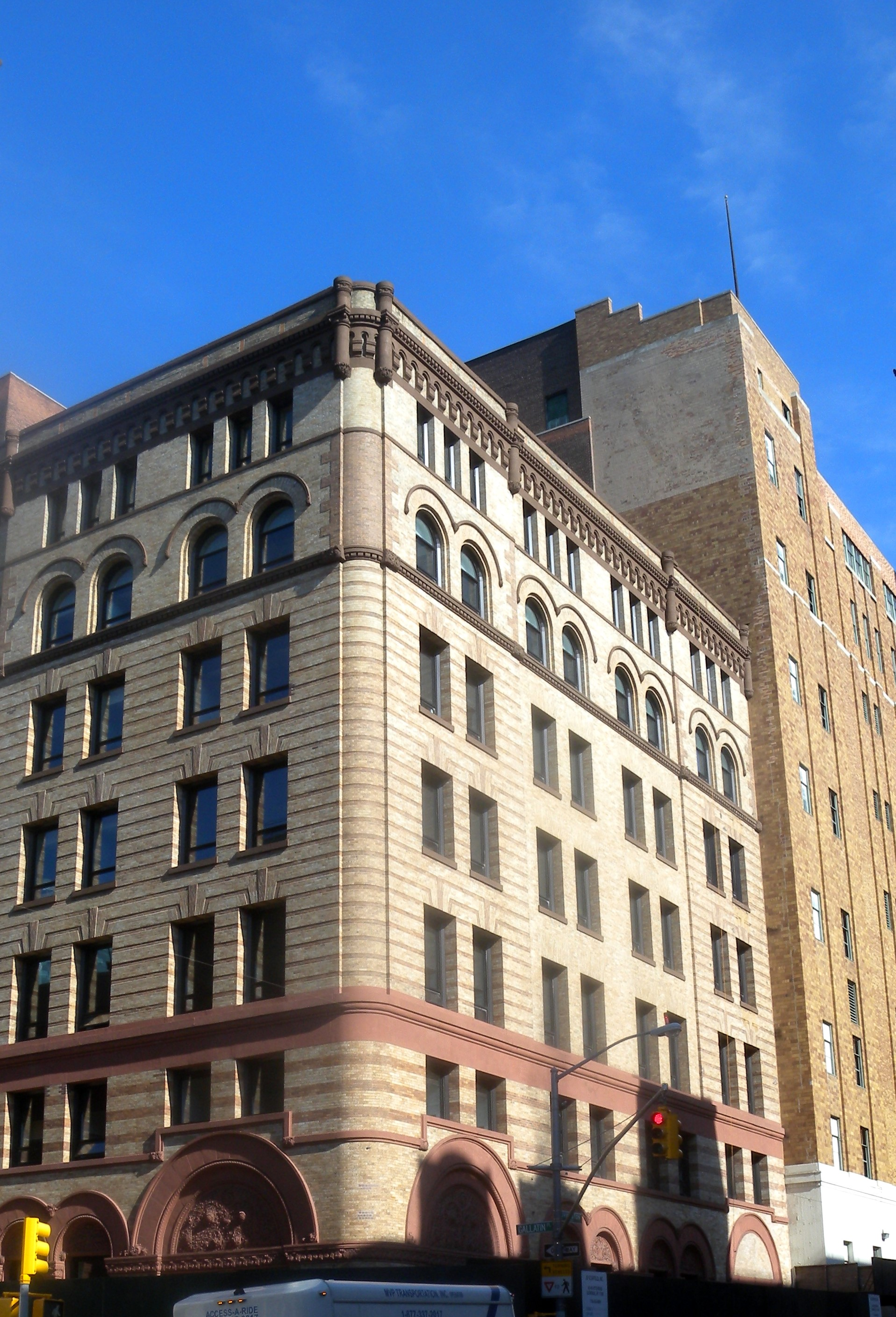 Looking east across Livingston and Gallatin at former annex of Abraham and Straus store, later Macy's, Brownstoner 2010 converted in 2011 to apartments.